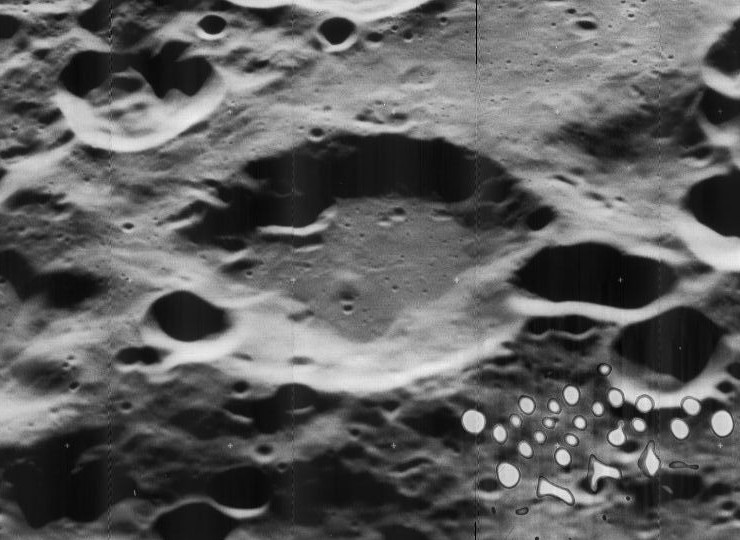 Oblique view of McNally, on the far side of the moon, facing west. Cluster of spots in lower right are blemishes on original image.